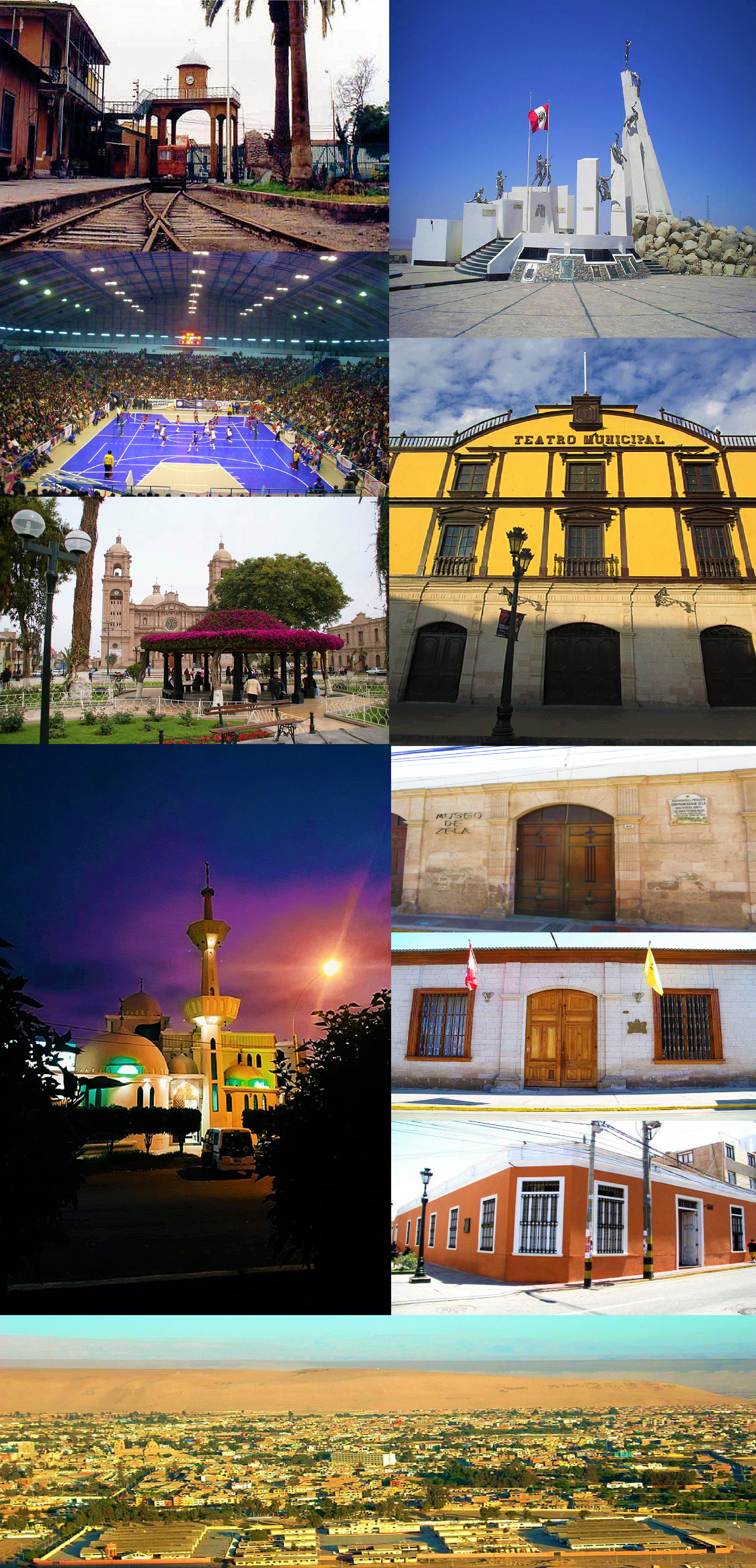 Various scenarios and places in the city of Tacna, in southern Peru.